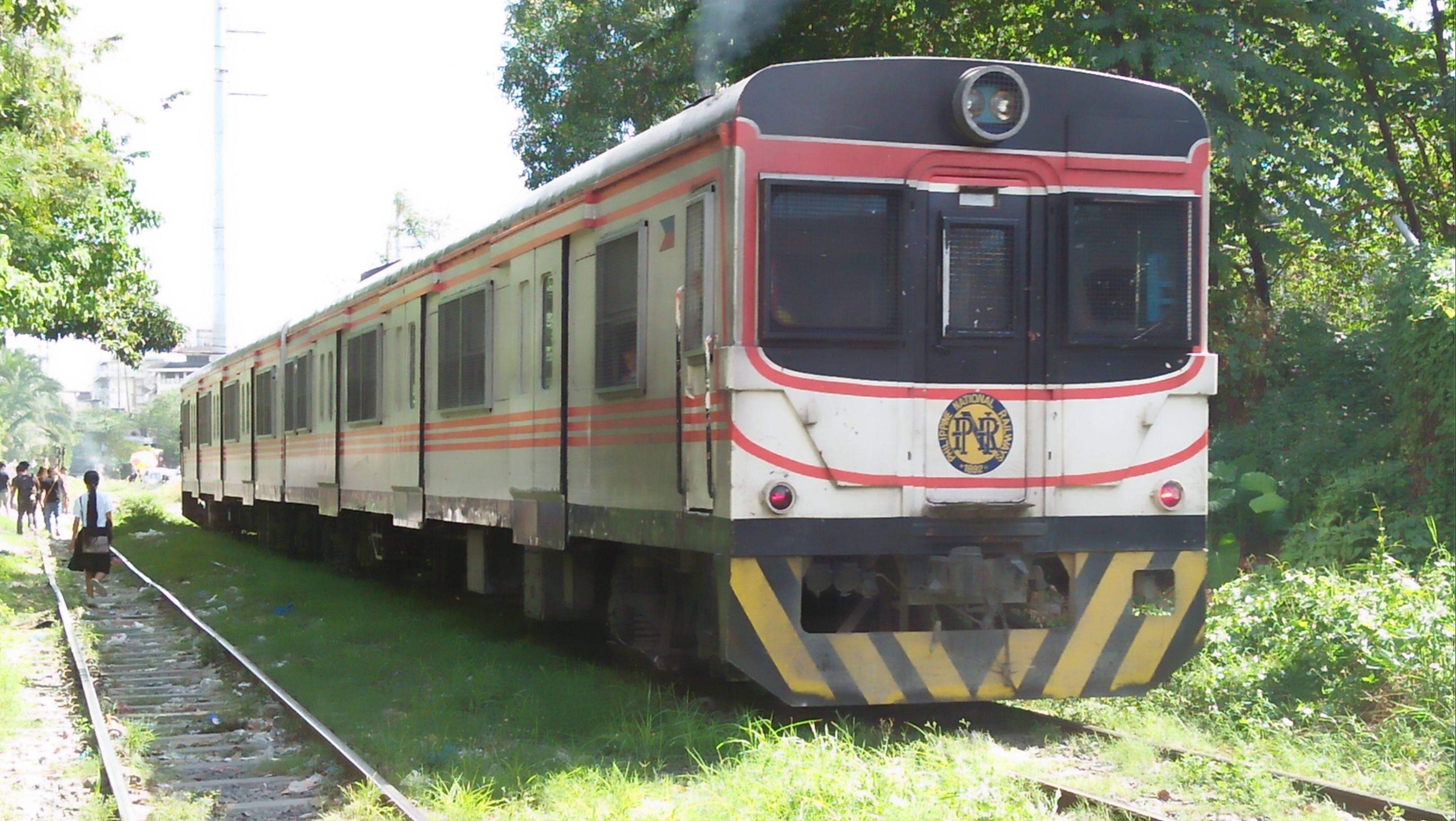 PNR former JNR KiHa 35 / Kanto Railway KiHa 350 leaving from Santa Mesa station bound for Alabang on their Metro South Commuter service last December 2018.